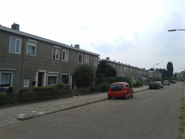 Typical small post-WWII houses in "Jeruzalem", Heseveld, Nijmegen.